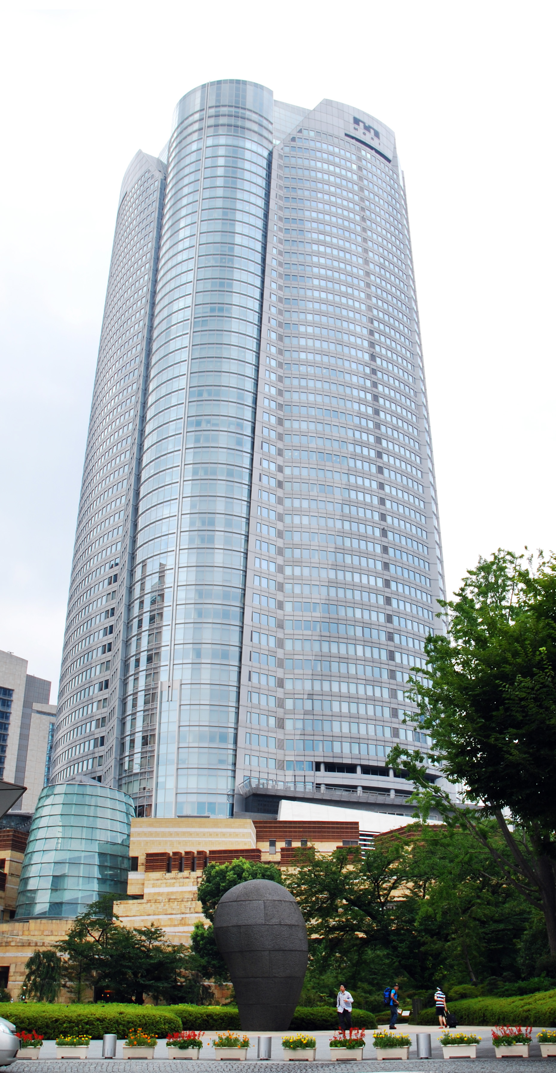 Mori Tower, Roppongi